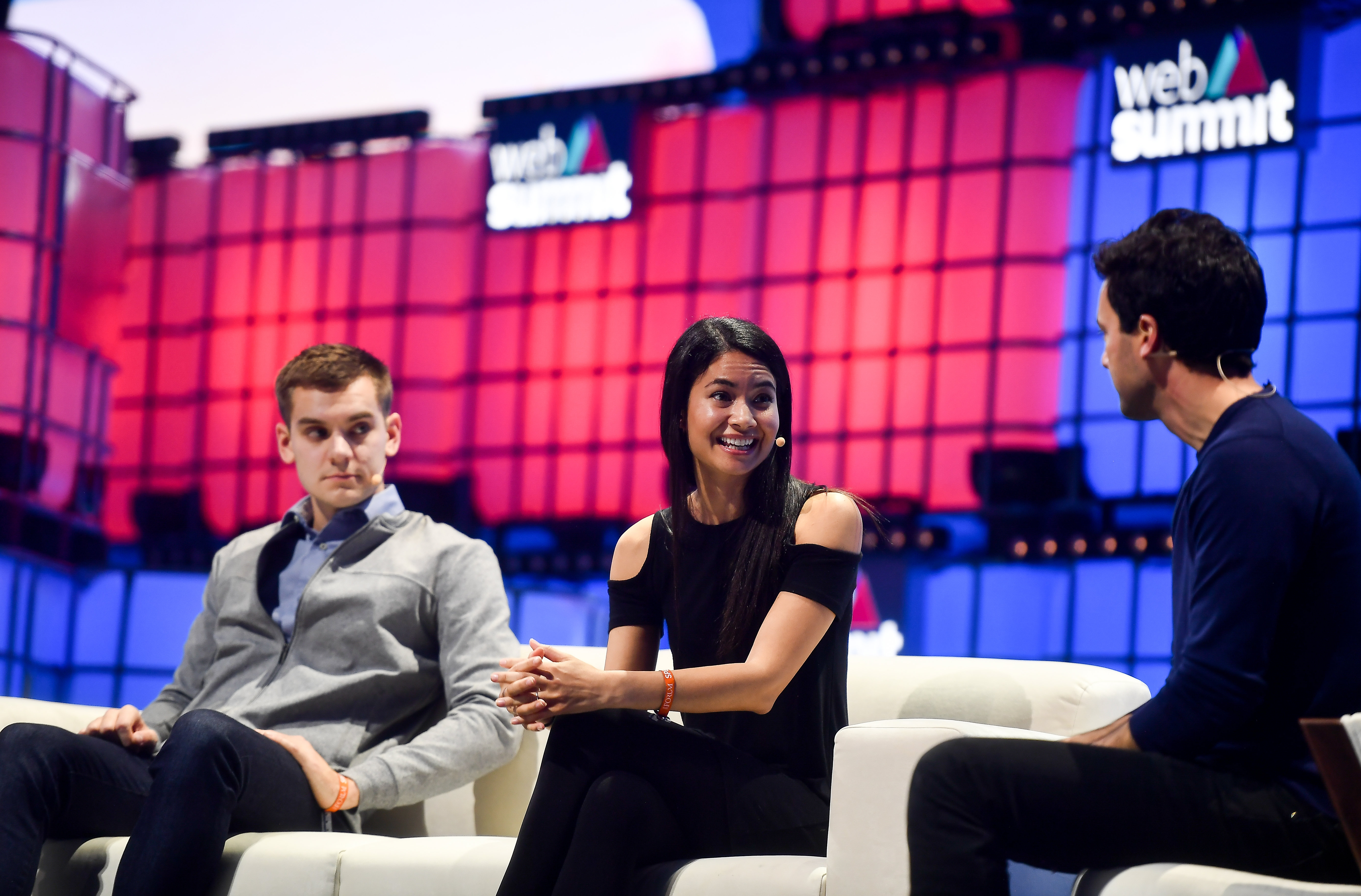 5 November 2019; Speakers, from left, Markus Villig, CEO, Bolt, Melanie Perkins, Co-founder & CEO, Canva, and Adam Satariano, European technology correspondent, The New York Times, on Centre Stage during the opening day of Web Summit 2019 at the Altice Arena in Lisbon, Portugal. Photo by David Fitzgerald/Web Summit via Sportsfile